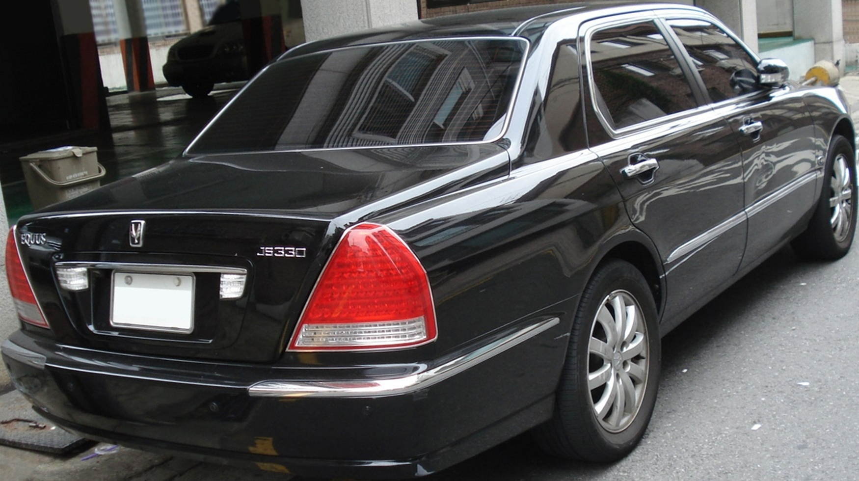 Hyundai Equus